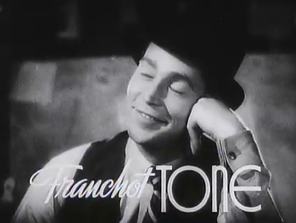 Franchot Tone in the trailer for the American film Man-Proof (1938).